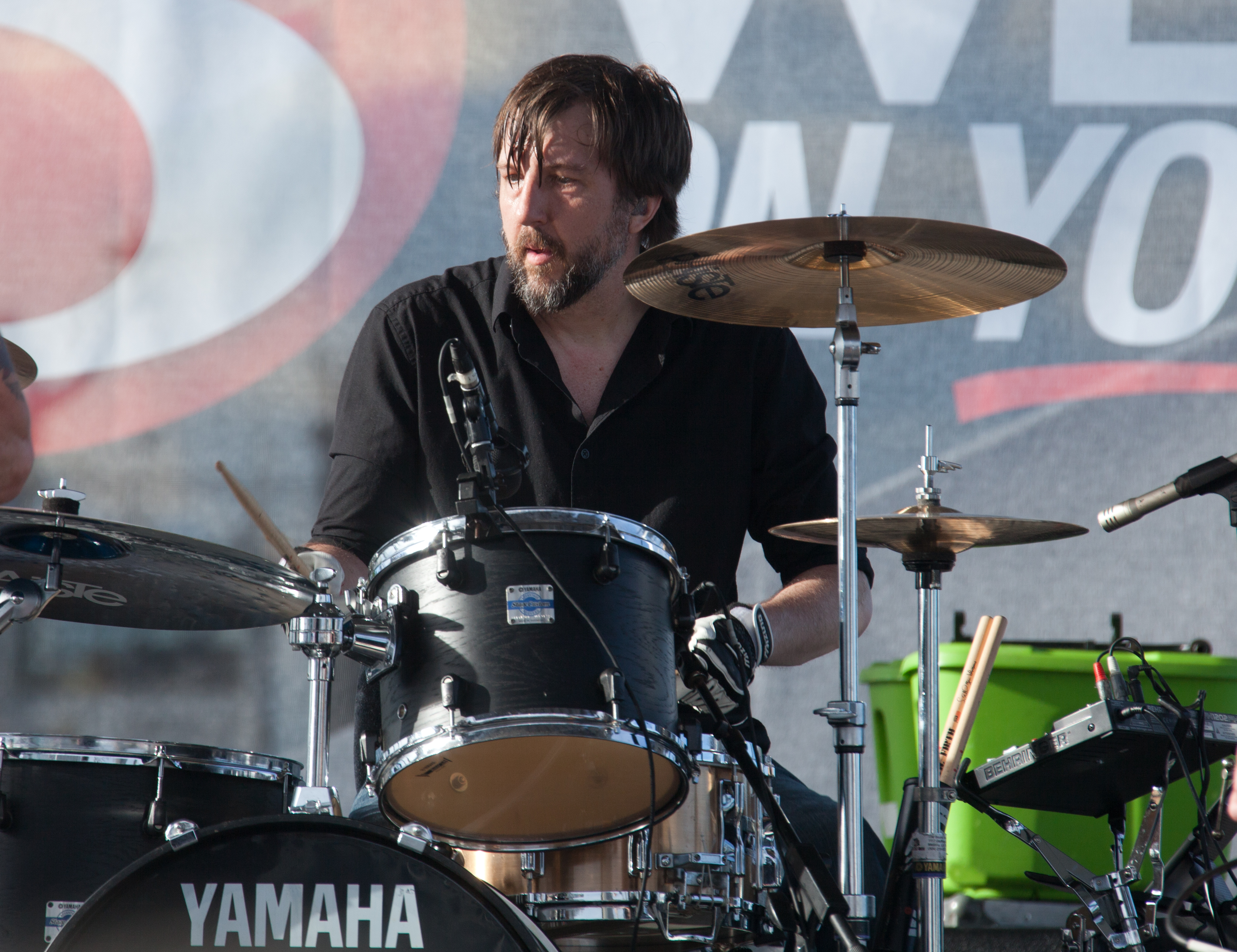 Dummer Scott Hessel performing on June 2, 2013 at the 2013 New Orleans Oysterfest